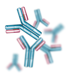 Polyclonal Antibody